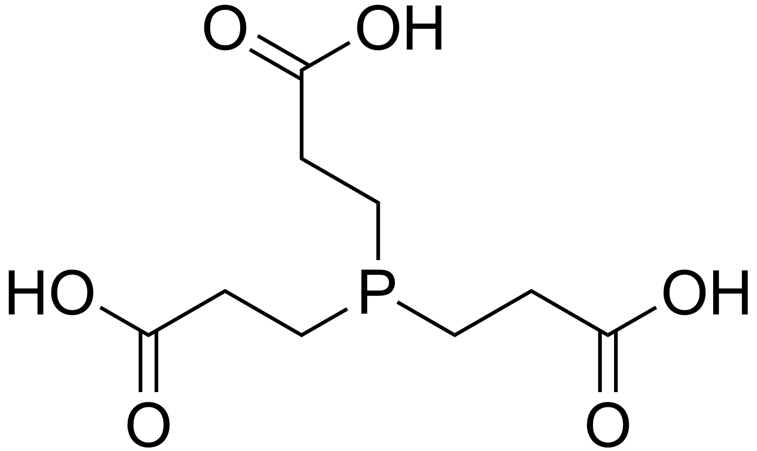 Chemical structure of tris(2-carboxyethyl)phosphine (TCEP)